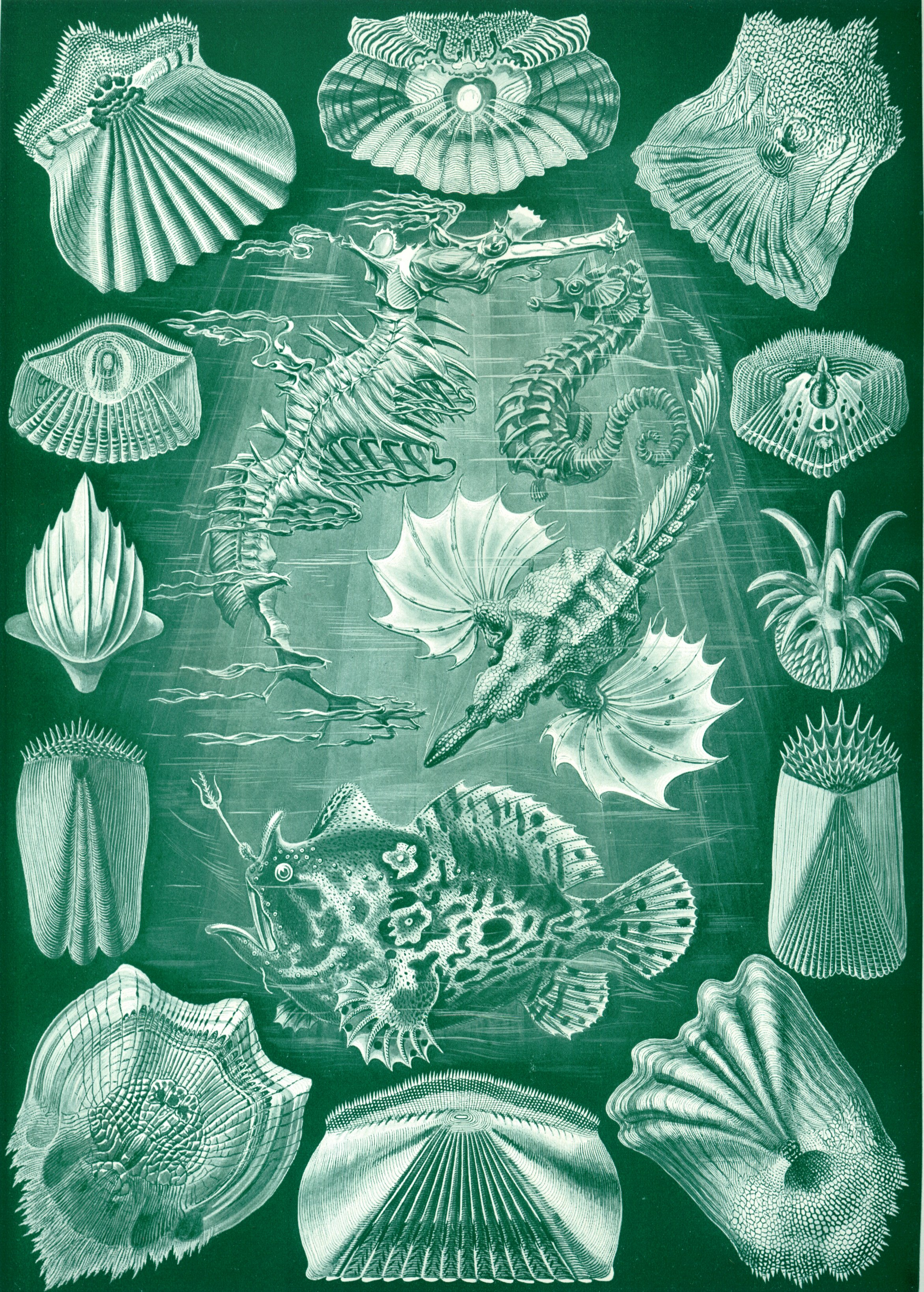 For index to numbers, see here. Pegasus chiropterus (Haeckel) = Pegasus laternarius Cuvier, 1816?, side view Hippocampus antiquorum (Leach) = Hippocampus hippocampus (Linnaeus, 1758), side view Phyllopteryx eques (Günther) = Phycodurus eques (Günther, 1865), top view Antennarius tridens (Bleeker) = Antennarius striatus (Shaw, 1794), side view Chrysophrys aurata (Cuvier) = Sparus aurata Linnaeus, 1758, scale in top view Pagellus erythrinus (Cuvier) = Pagellus erythrinus (Linnaeus, 1758), scale in top view Box vulgaris (Cuvier) = Boops boops (Linnaeus, 1758), scale in top view Anthias sacer (Schneider) = Anthias anthias (Linnaeus, 1758), scale in top view Apogon imberbis (Günther) = Apogon imberbis (Linnaeus, 1758), scale in top view Centriscus scolopax (Cuvier) = Macroramphosus scolopax (Linnaeus, 1758), scale in top view Hypostomum plecostomum (Cuvier) = Hypostomus plecostomus (Linnaeus, 1758), scale in top view Fistularia chinensis (Lacépede) = Aulostomus chinensis (Linnaeus, 1766), scale in top view Solea vulgaris (Quensel) = Solea solea (Linnaeus, 1758), scale in top view Scarus enneacanthus (Bleeker) = Chlorurus enneacanthus (Lacepède, 1802), scale in top view Haemulon elegans (Cuvier) = Haemulon sciurus (Shaw, 1803), scale in top view Cantharus vulgaris (Cuvier) = Spondyliosoma cantharus (Linnaeus, 1758), scale in top view